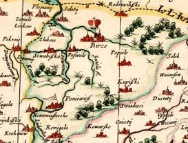 Fragment of 1613 map showing north Lithuania